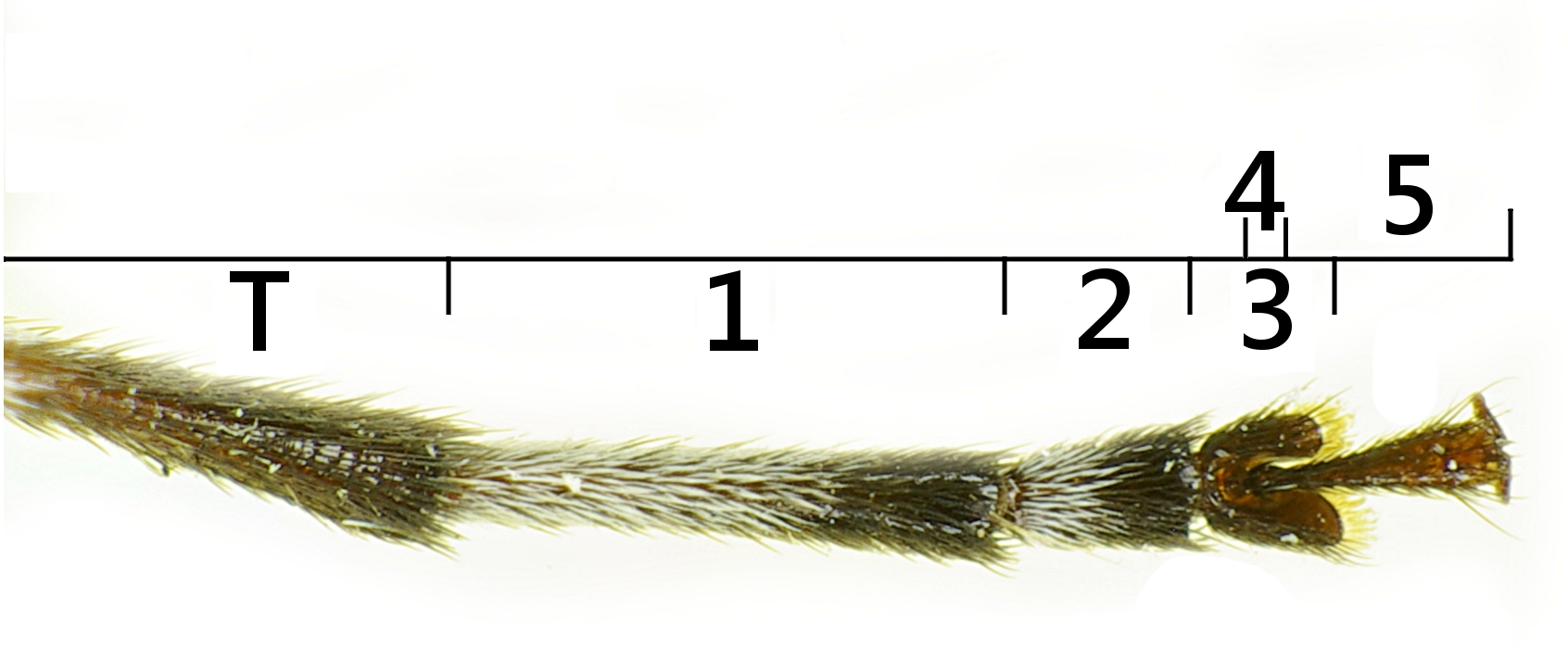 Acanthocinus griseus hind tarsus. T Tibia 1 -5 part of tarsus